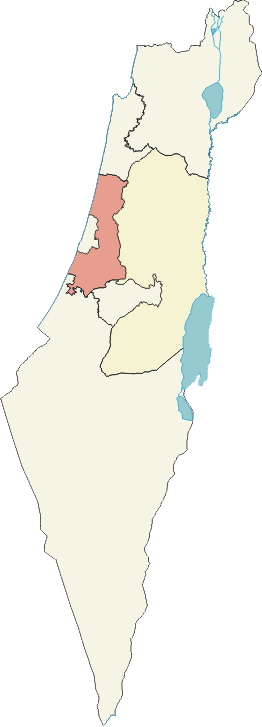 Position of the Center District of Israel within Israel.